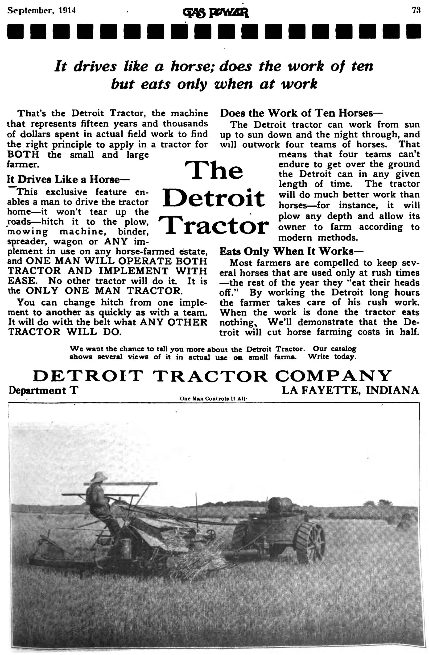 Detroit Tractor Company advertisement in the journal Gas Power, September 1914. It exemplified the ways that manufacturers and distributors of motorized equipment competed against horse-drawn methods, with phrases such as "it eats only when it works", a common theme of the era. Tractor drawbars were designed to hitch directly to existing horse-drawn implements. This particular tractor, and various others of the 1910s, could even be controlled with reins.